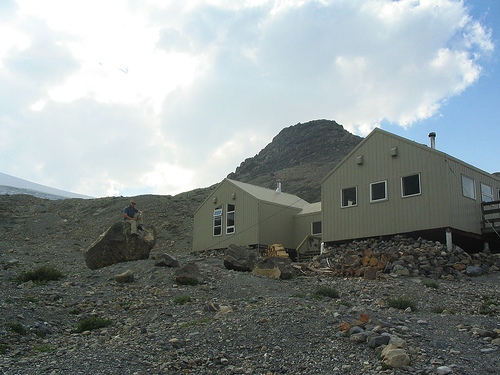 Bow hut near the Wapta Icefield in Banff National Park, Canada